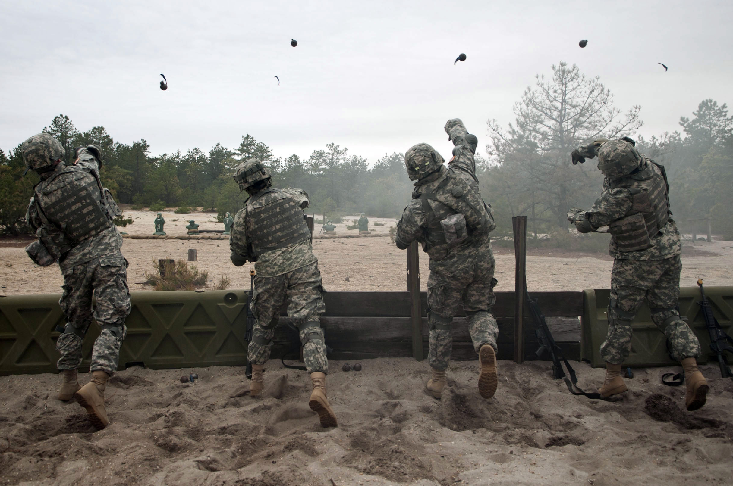 FORT DIX, N.J. (May 2, 2011) Sailors toss training grenades during Army Warrior training at Fort Dix, N.J. The four-week training is designed to outfit, equip and prepare Sailors for upcoming deployments supporting overseas contingency operations. (U.S. Navy photo by Mass Communication Specialist 3rd Class Jonathan David Chandler/Released)